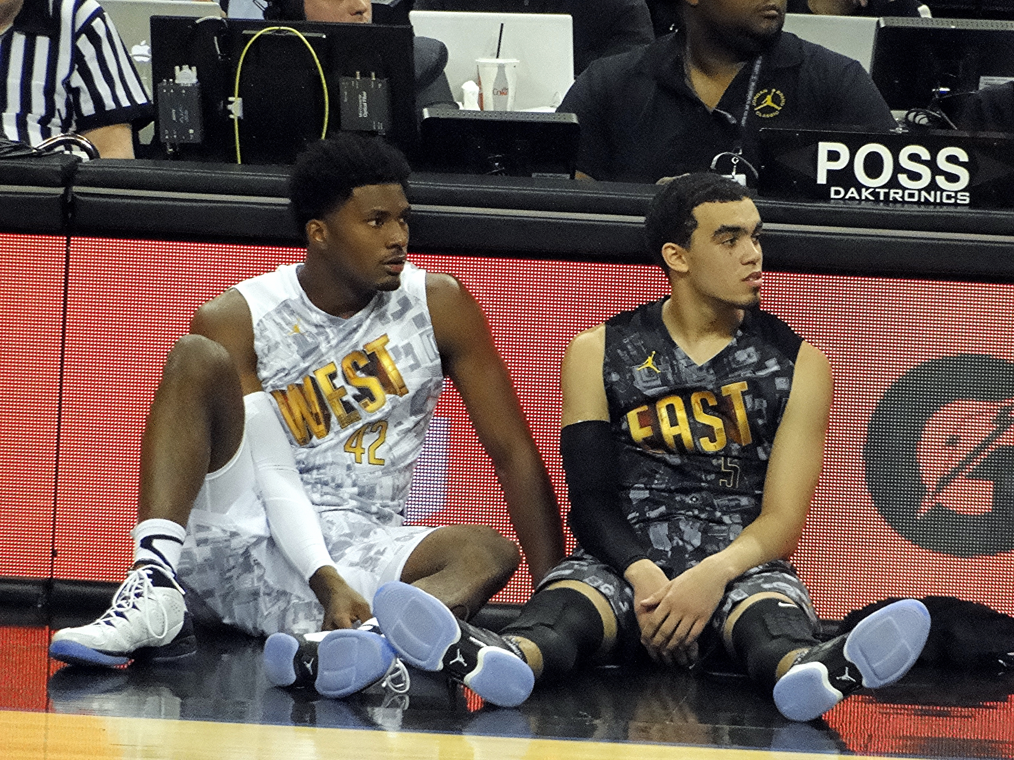 American college basketball players Justise Winslow and Tyus Jones